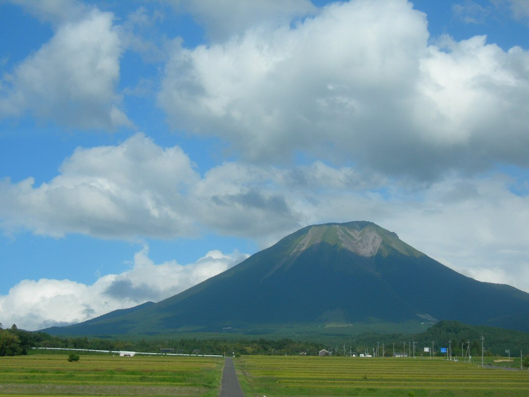 Mount Daisen seen from the south. Taken from Yonago Expressway.